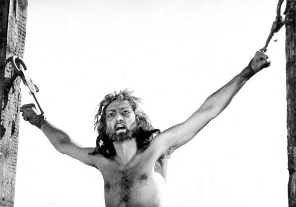 A depiction of the execution of Imadaddin Nasimi.